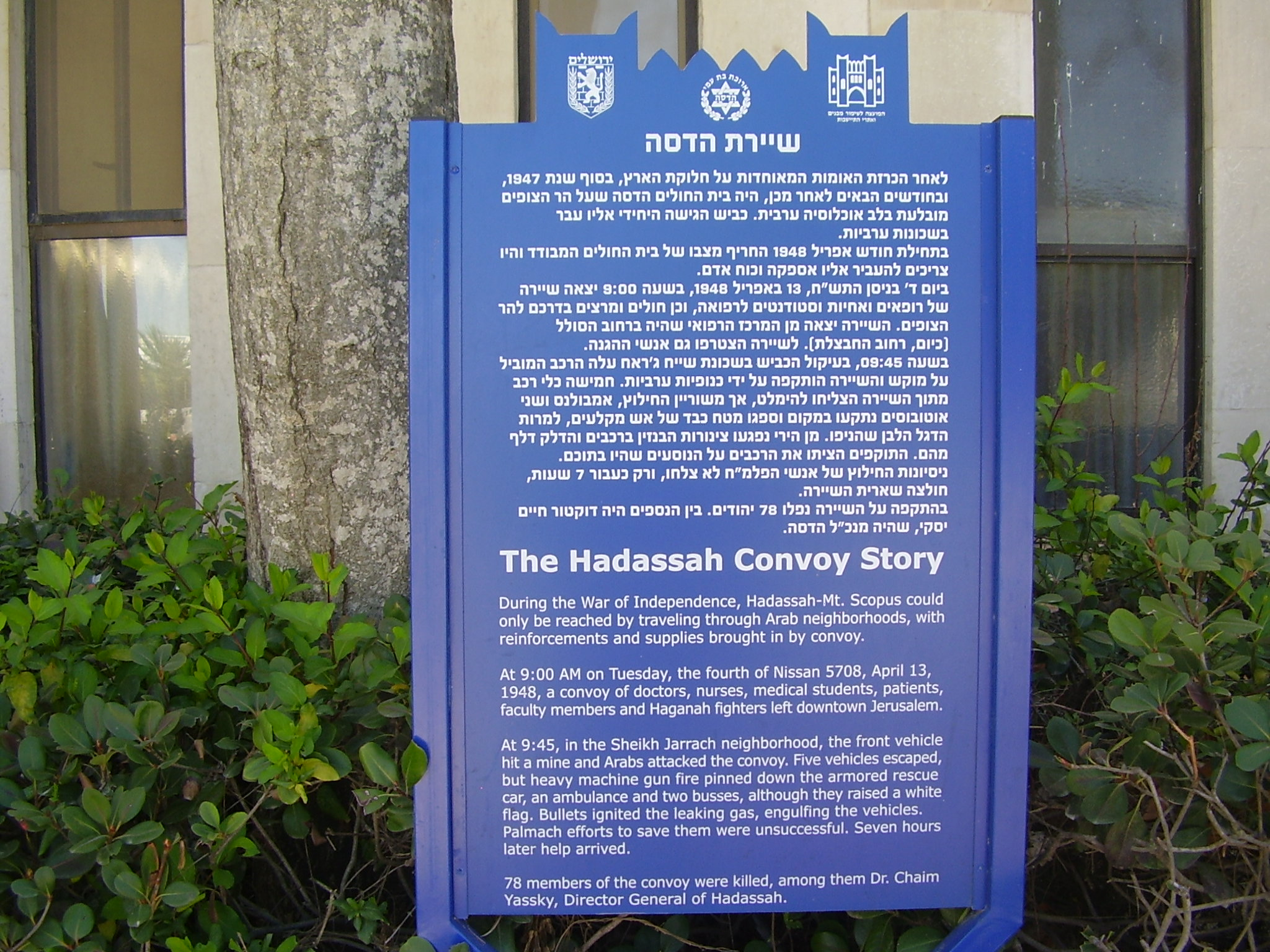 hadassah convoy memorial (1948) in hadassah mount scopus hospital